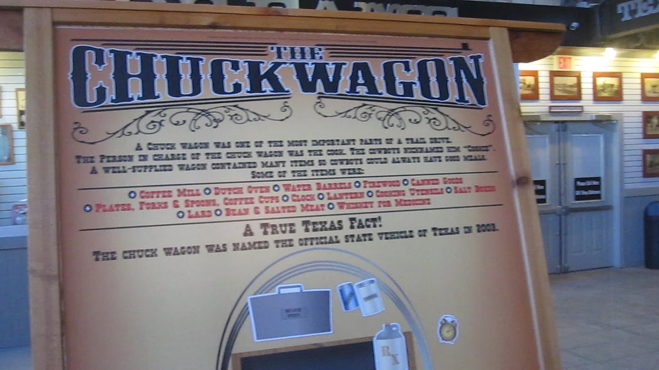 I took photo at Texas Cowboy Hall of Fame with Canon camera.